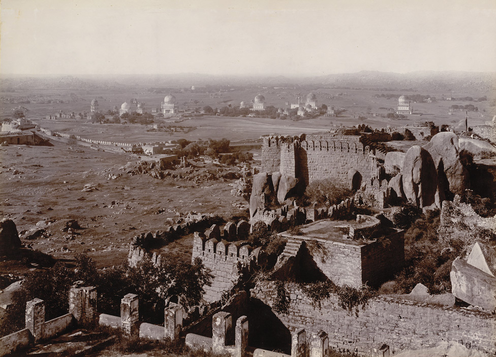 Golconda Tombs from Fort, 1902-03 photograph. Nearly all the members of the Qutb Shah dynasty, founded in 1512 by Quli Shah, were buried in the complex of royal tombs at Golconda, its capital, which lies 549 m to the north-west of the Fort.